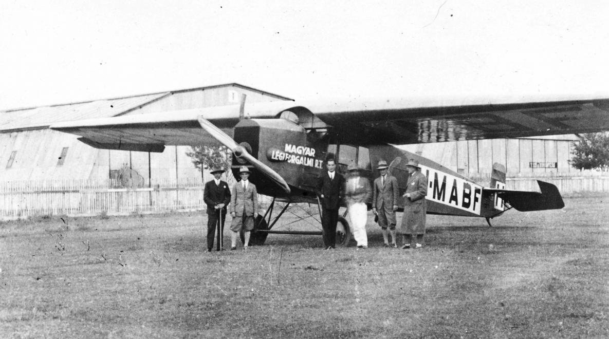 Fokker F-III of Malert in 1930